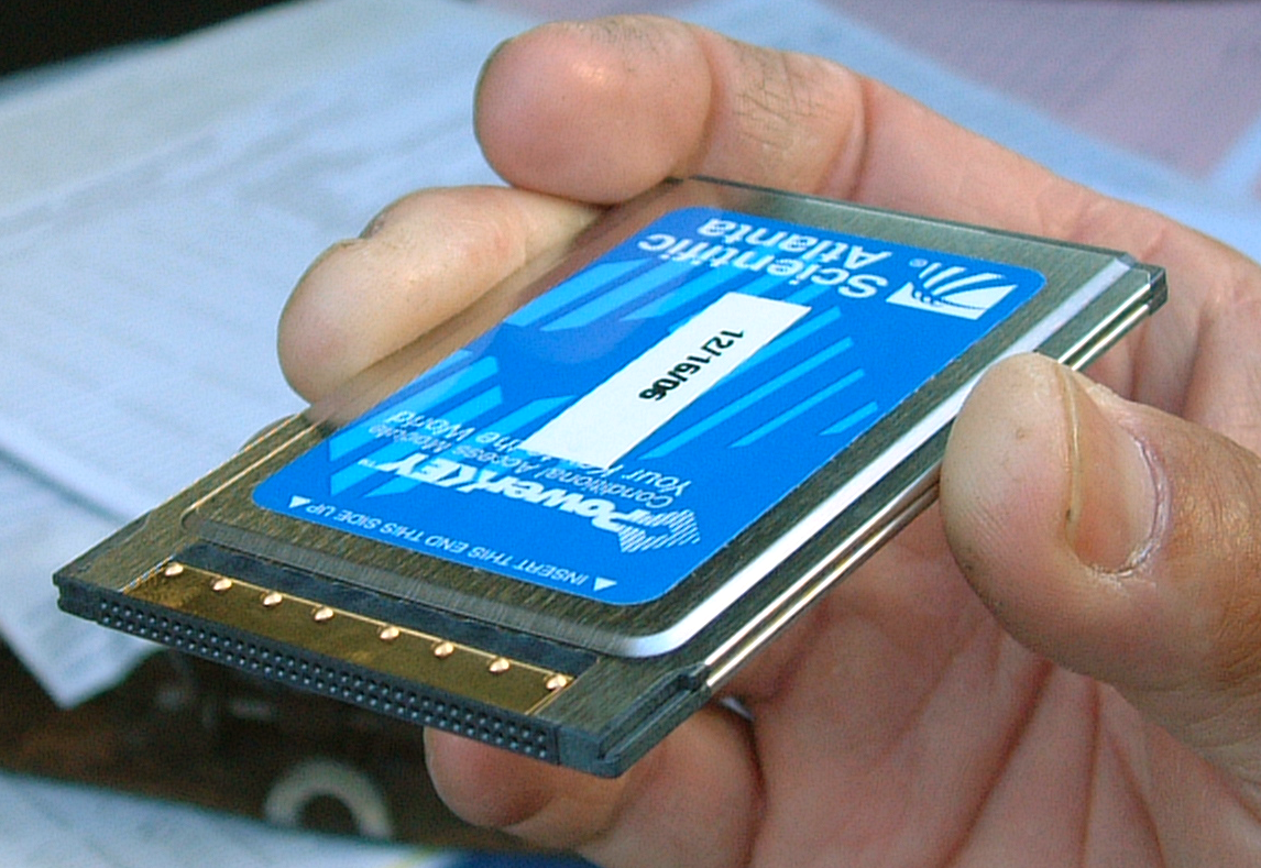 CableCARD made by Scientific Atlanta- product name PowerKEY. This is a single stream CardBus card conforming to the CableCARD 1.0 specification. Illustration for CableCARD article. Another CableCARD manufacturer is Motorola. Some CableCARDs are branded by the cable company, though they are made by either Motorola or Scientific Atlanta.